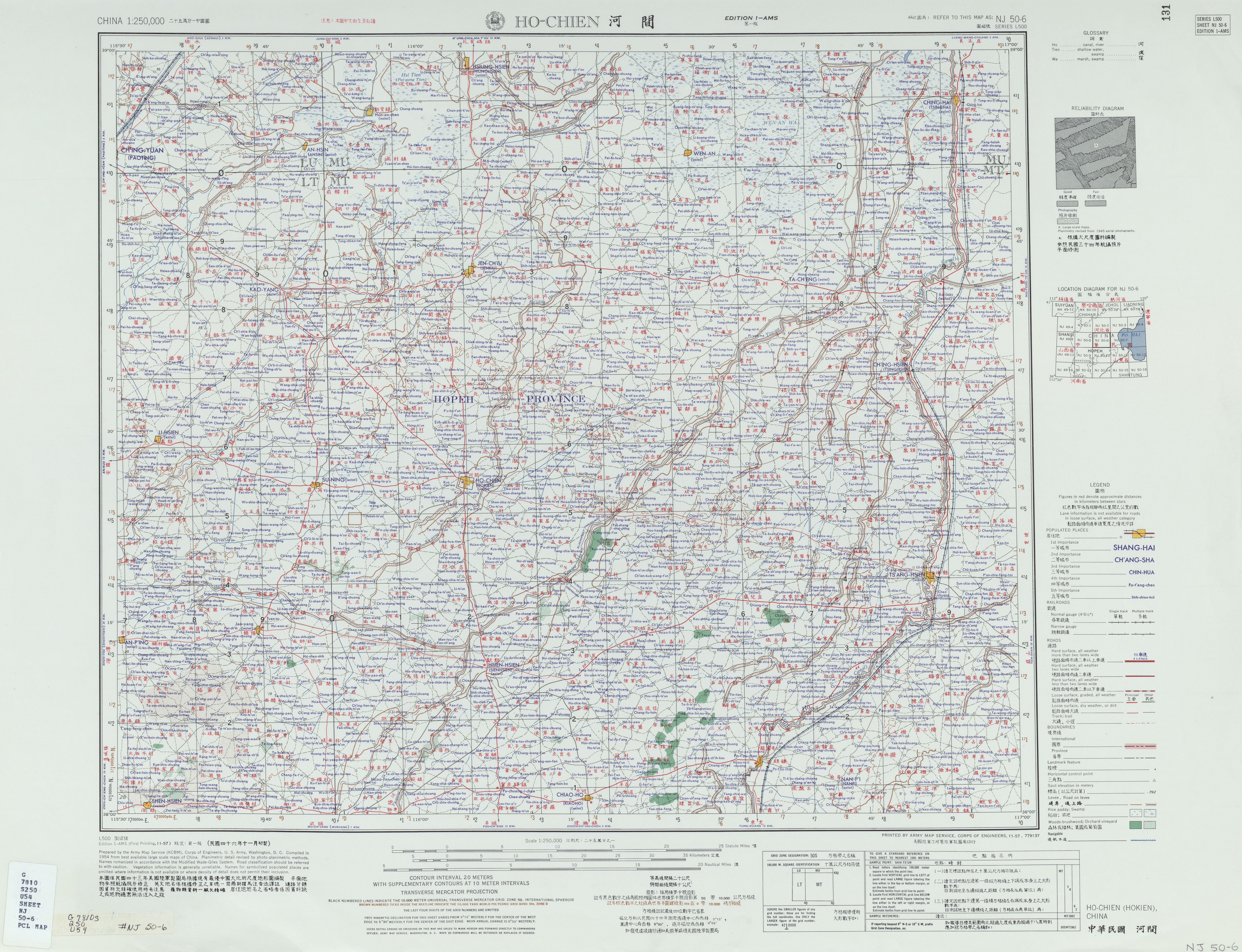 China AMS Topographic Maps